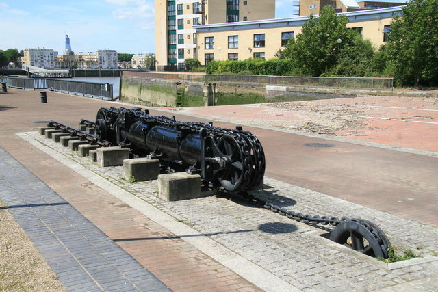 Former Millwall Docks entrance